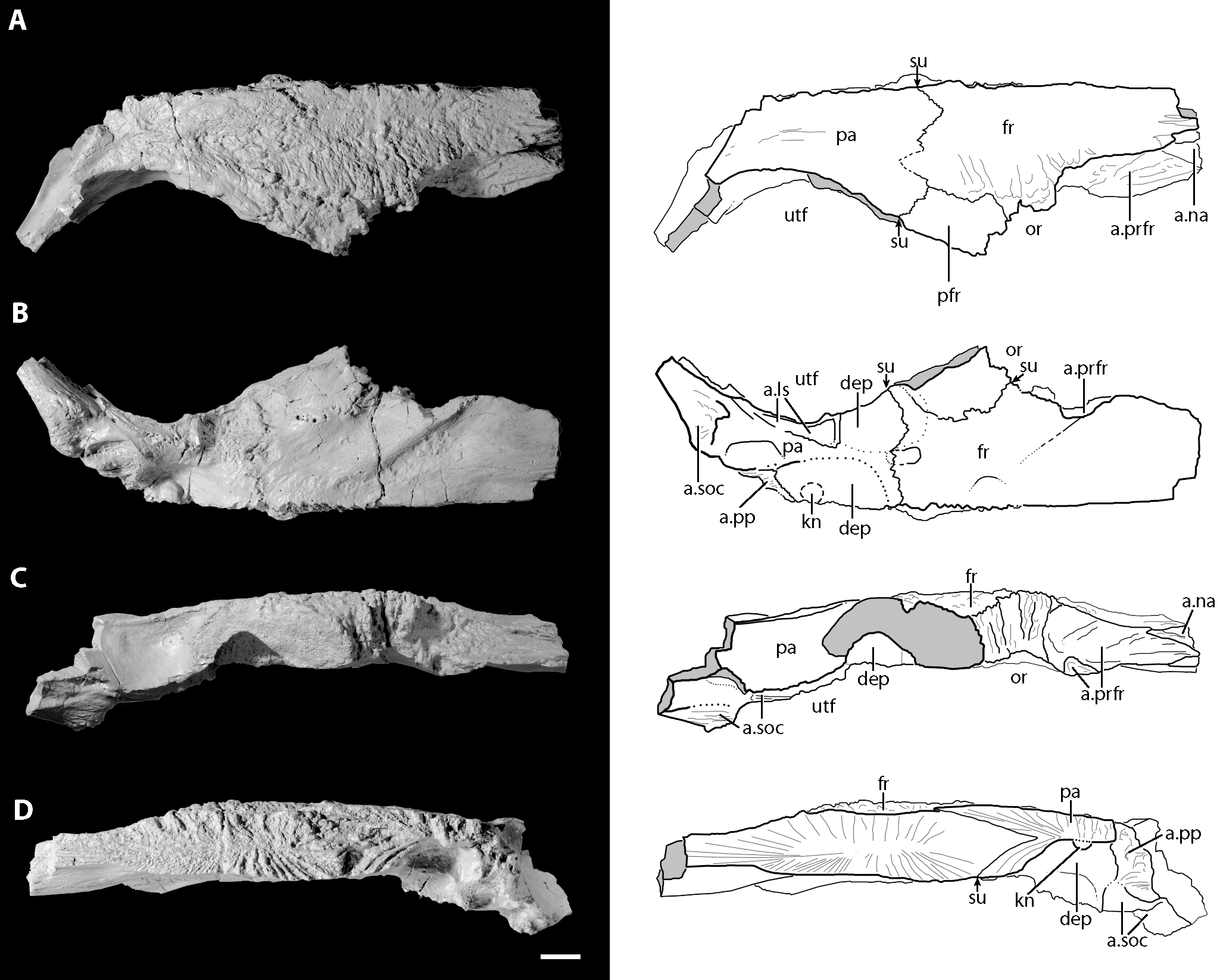 Right side of the skull roof of the holotype of Asperoris mnyama (NHMUK PV R36615) consisting of the frontal, postfrontal and parietal. Skull roof in dorsal view (A) and interpretative drawing, in ventral view (B) and interpretative drawing, in lateral view (C), and interpretative drawing, and medial view (D) and interpretative drawing. Light gray color indicates incomplete surfaces. Scale = 1 cm. Arrow indicates anterior direction. Abbreviations: a., articulates with; dep, depression; fr, frontal; kn, knob; ls, laterosphenoid; na, nasal; or, orbit; pa, parietal; pfr, postfrontal; pp, postparietal; prfr, prefrontal; soc, supraoccipital; su, suture; utf, upper temporal fenestra.